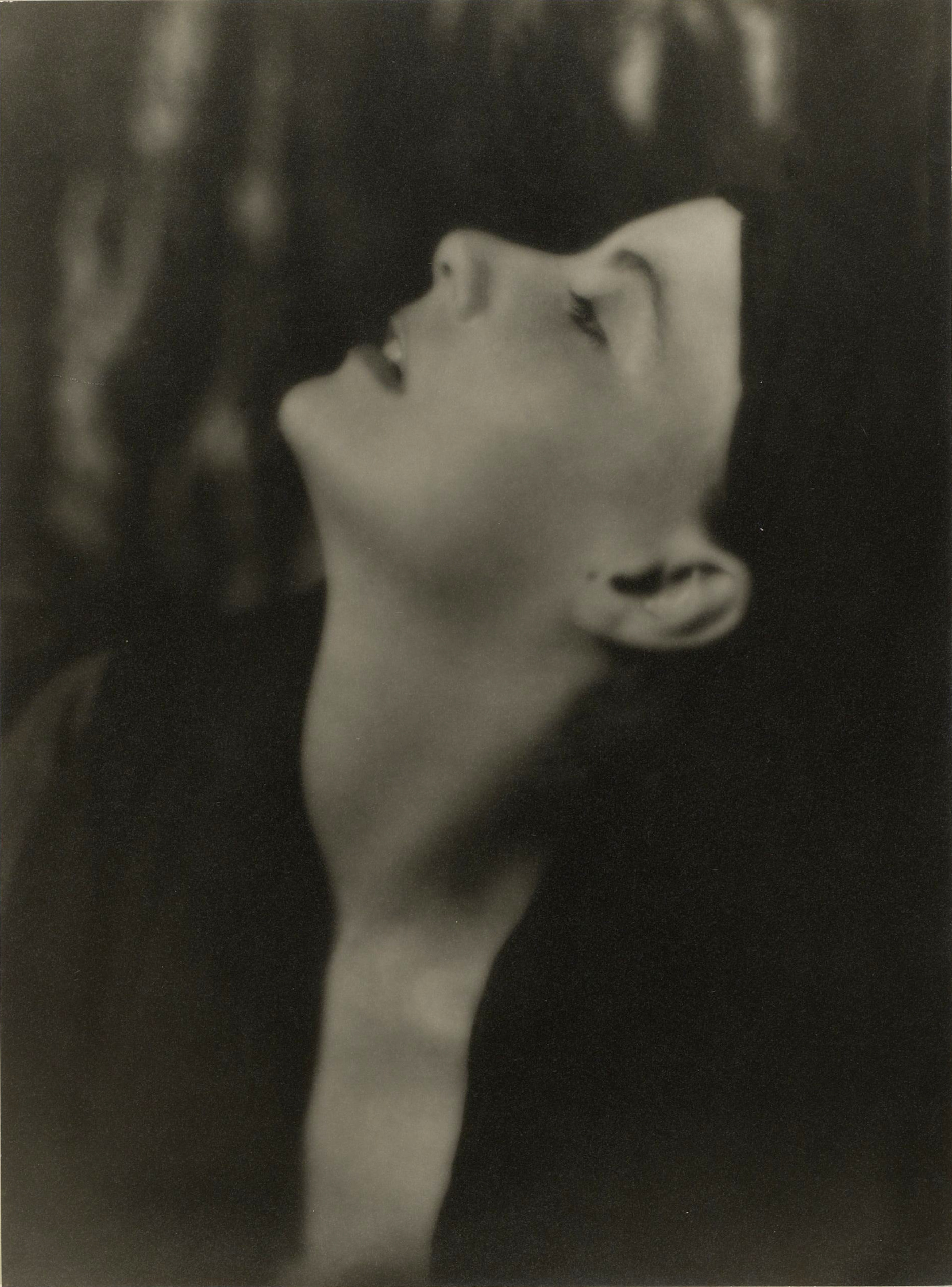 Portrait of Greta Garbo